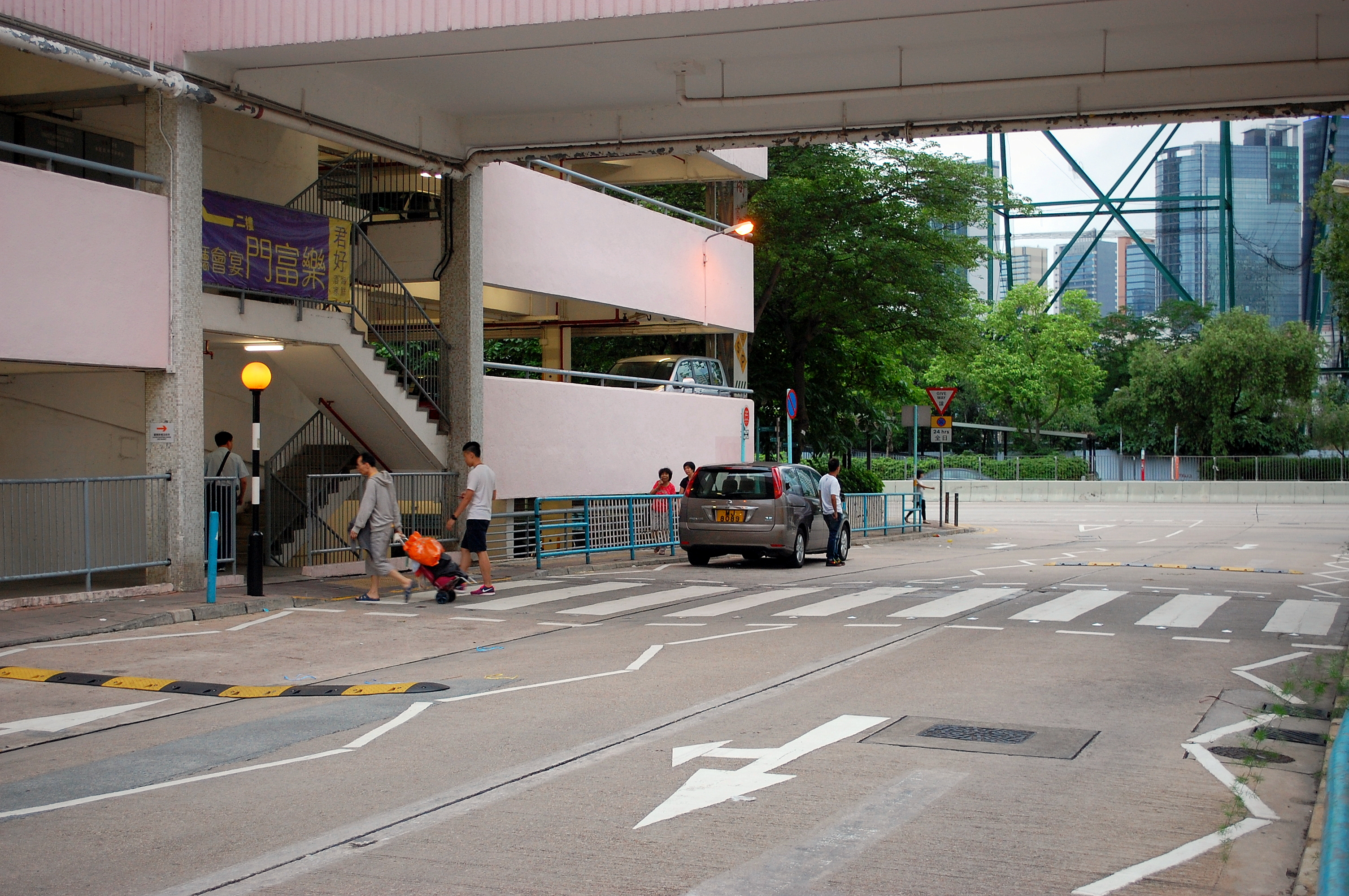 A Hong Kong zebra crossing for pedestrians at Lai Kok Estate, Sham Shui Po. Fitted with flashing Belisha beacons.